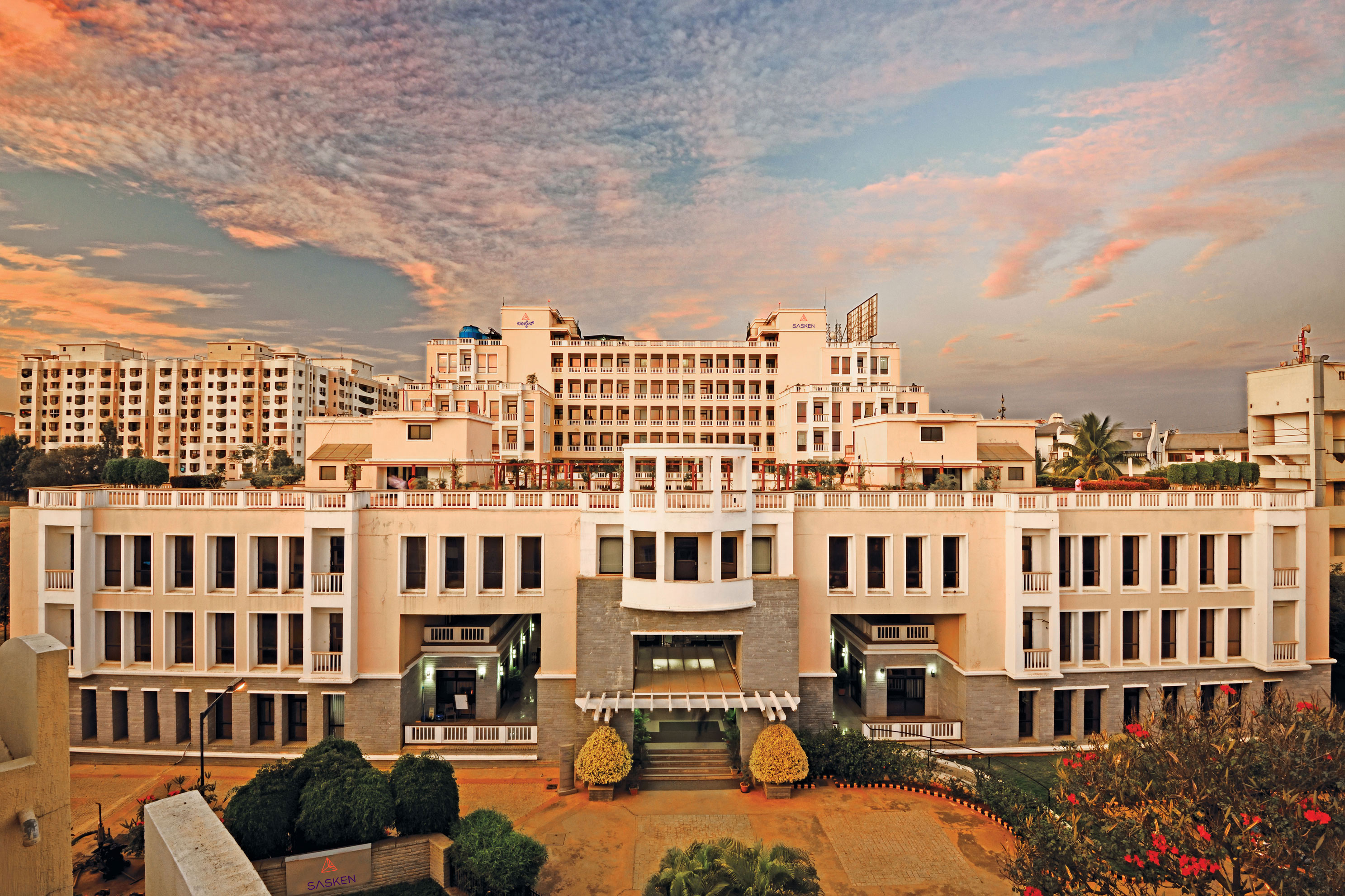 Sasken's Bengaluru Headquarters in 2018